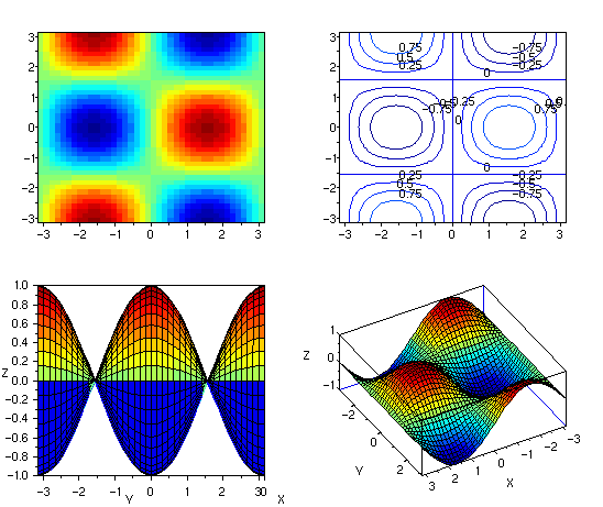 Example of graphic that can be made with Scilab.